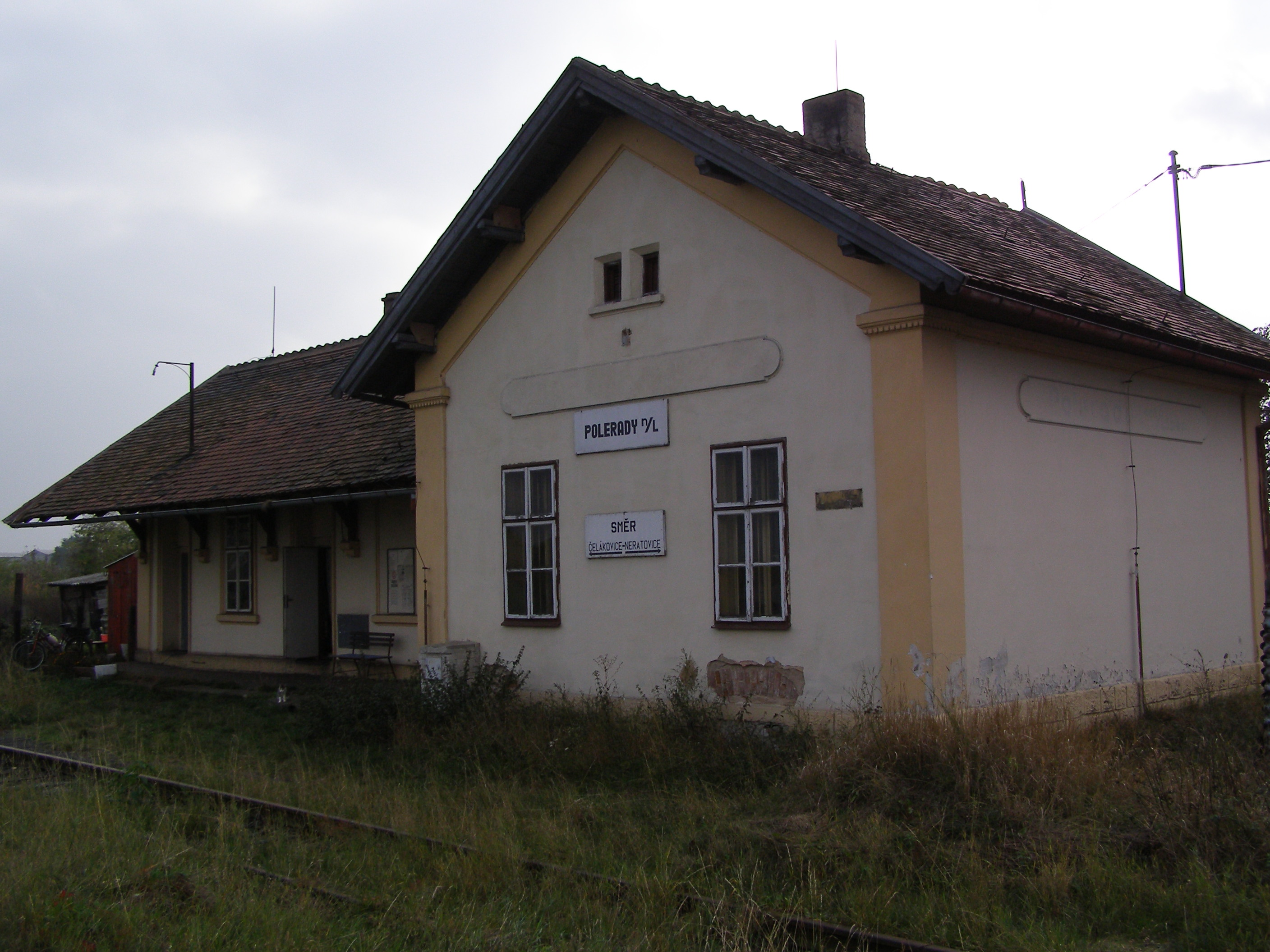 Polerady nad Labem - rail station